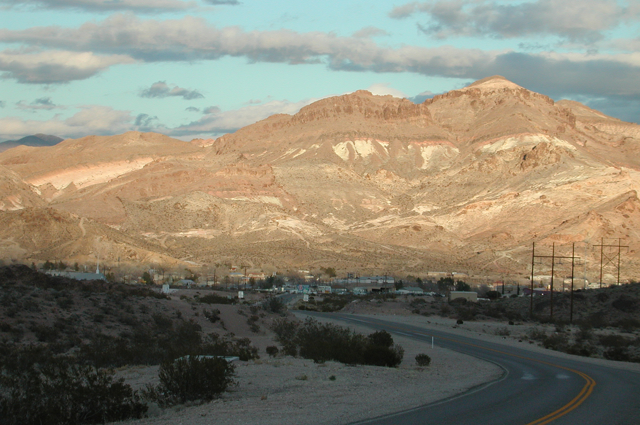 View of Beatty, Nevada, from State Route 374 west of town. Beatty Mountain in the background.